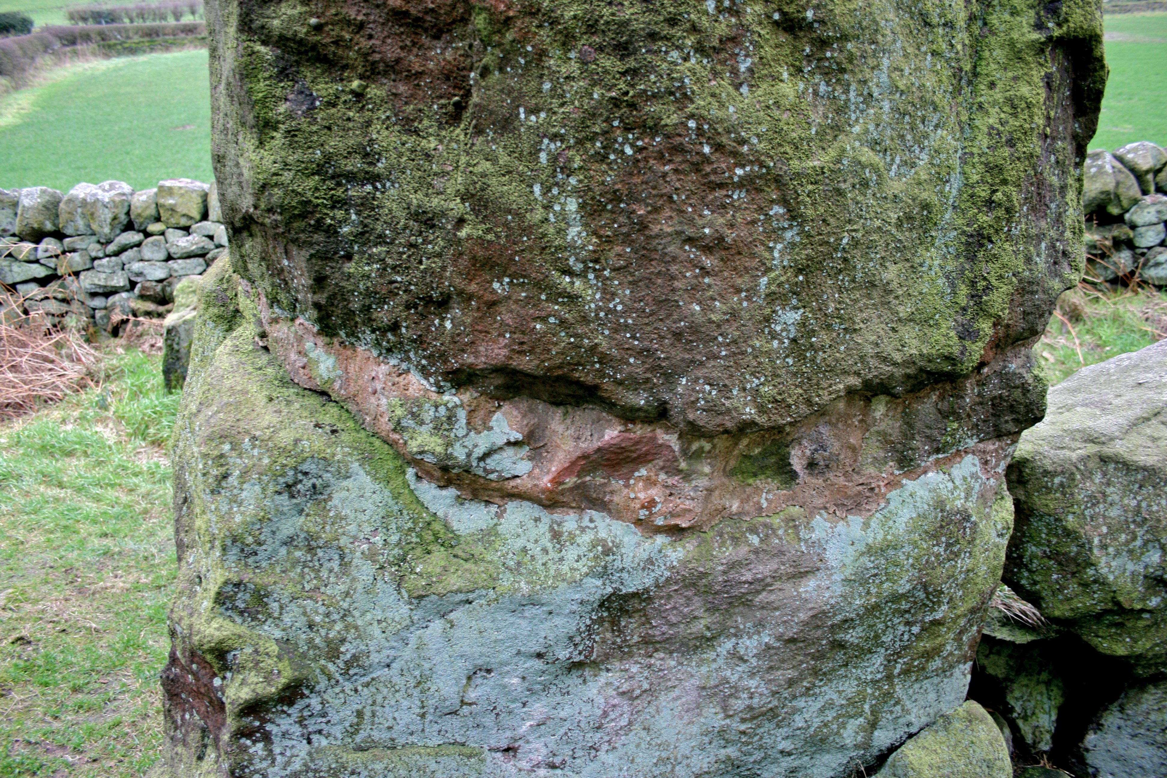 The Bridestones, nr. Congleton, Cheshire/Staffordshire, UK